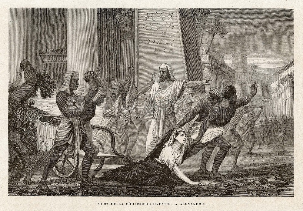 "Death of the philosopher Hypatia, in Alexandria". This particular version is from the book Vies des savants illustres, depuis l'antiquité jusqu'au dix-neuvième siècle , by Louis Figuier, first published 1866: [1]. However, this image earlier appeared in the journal Le Voleur Illustre, number 475, 7 December 1865: [2]. Note that this picture has a racist tone.